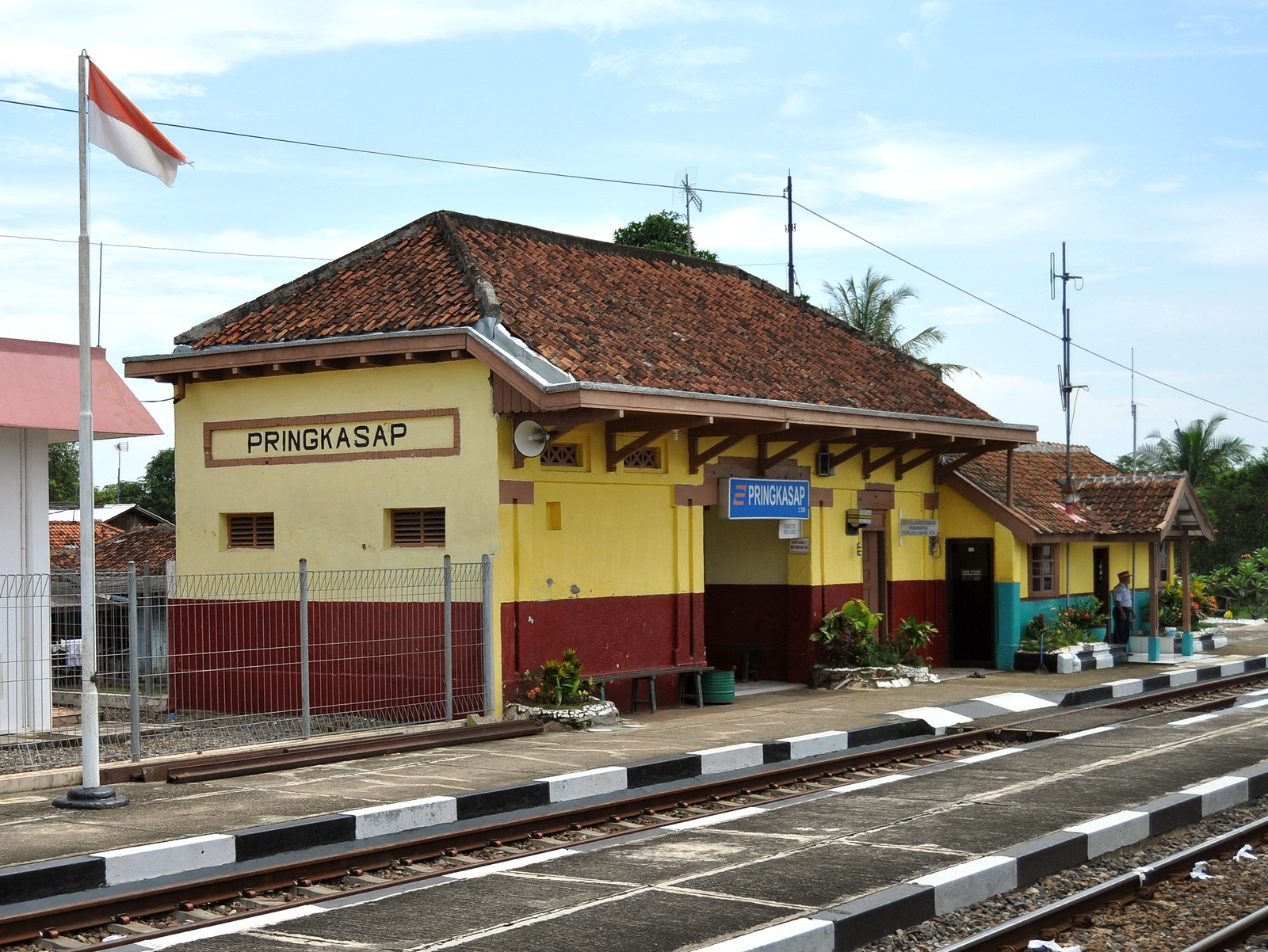 Pringkasap train station in West Java, Indonesia.